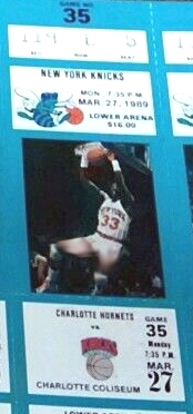 A ticket for a March 27, 1989 National Basketball Association game featuring the New York Knicks versus the Charlotte Hornets at the Charlotte Coliseum.